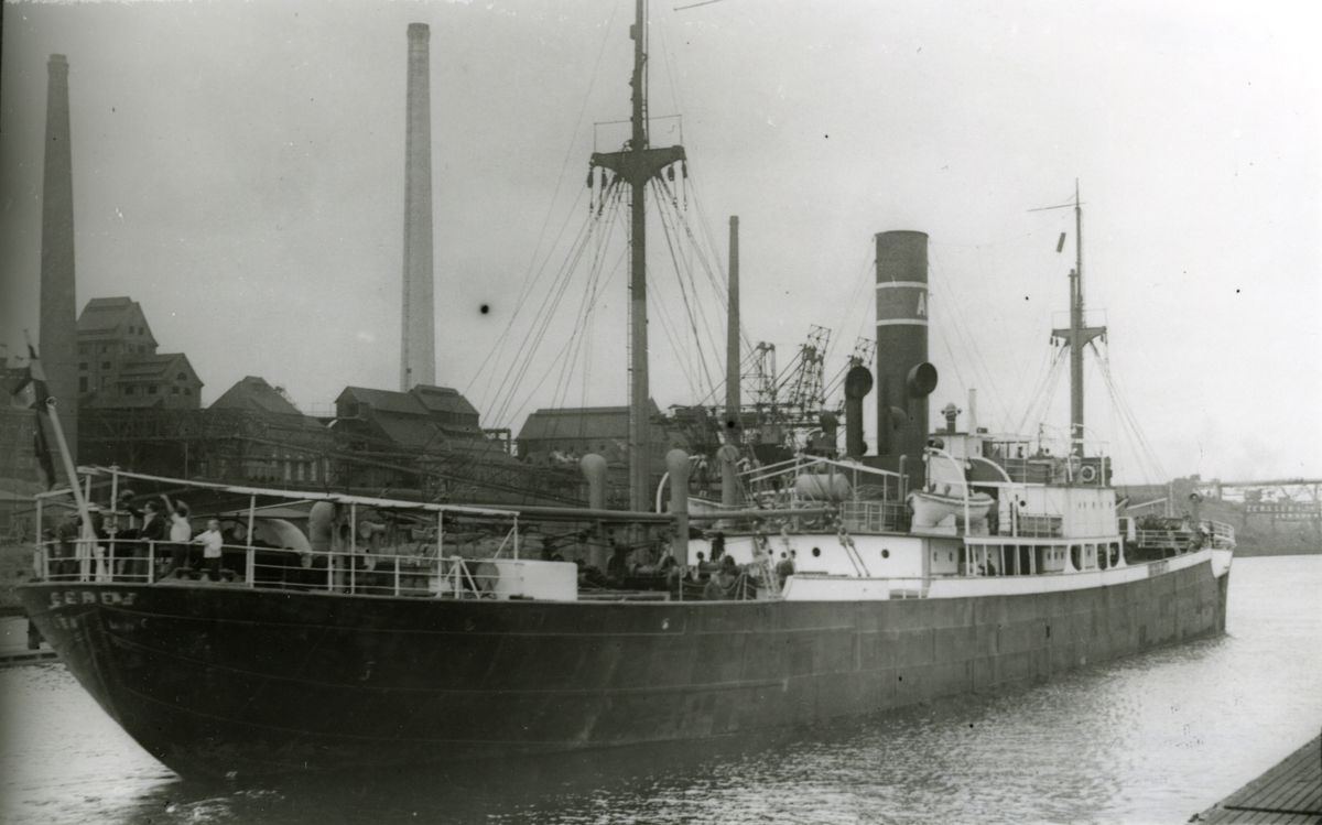 General cargo ship CERES built at Schiffswerft von Henry Koch A.G., Lübeck, as MIMI HORN (yard № 240, launched: 03-1922, delivered: 23-05-1922), later names: 1927 CERES, 1932 HELENE, 1941 HILMA, 1942 HILMA LAU, torpedoed by Soviet submarine LEMBIT and sunk south of Swedish island Öland 13-10-1944.